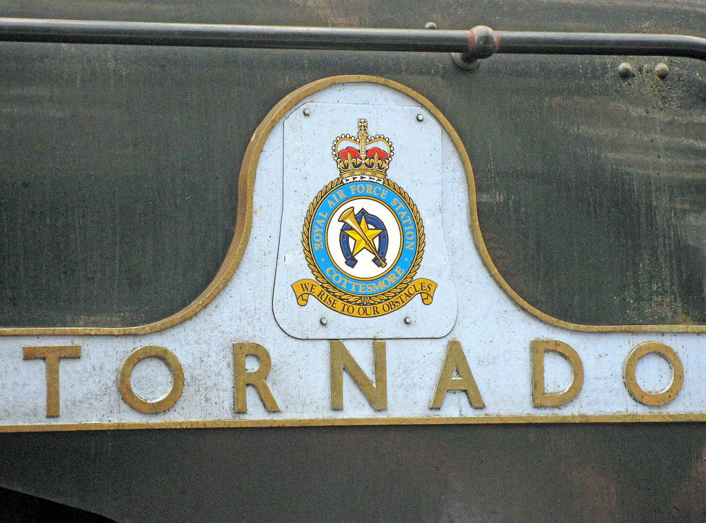 The right hand nameplate of steam locomotive 60163 Tornado, that carries the crest of RAF Cottesmore. It's filthy state is explained by the fact it's been pictured while Tornado was at Glasgow Central station, having completed the 8 hour long outbound leg of The Caledonian Tornado tour, which was a run from Crewe to Glasgow and back.